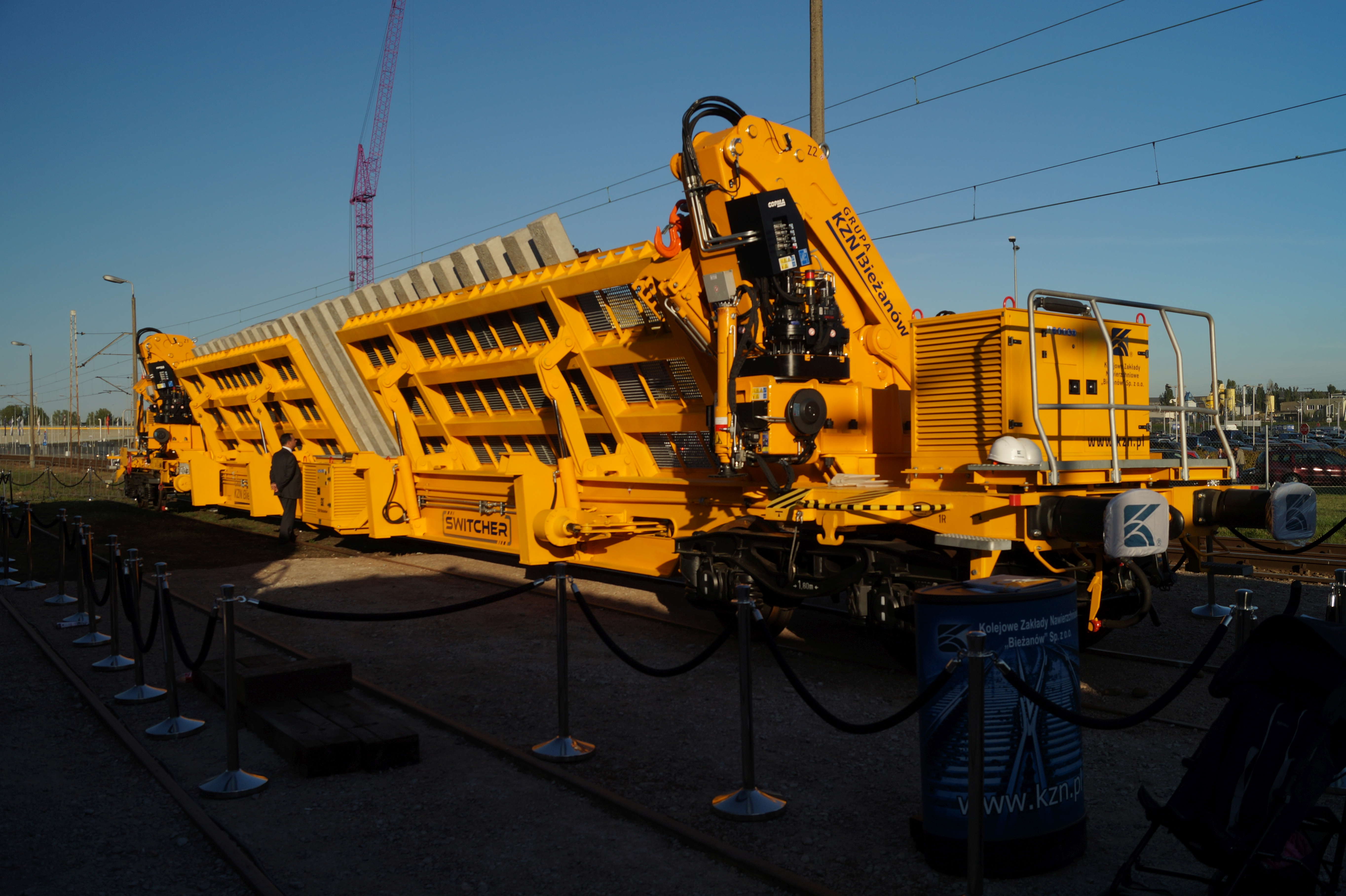 The making of this document was supported by Wikimedia Polska Association, within Wikigrant no. WG 2015-34. English | polski | +/− KZN Bieżanów Switcher na Targach Trako 2015